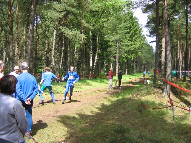 Orienteering in Tentsmuir Forest. Forestry Commission forests are not just about timber production, although that is their primary purpose. Recreational use is important, and this traditionally forest based sport is a big user of forests. This is the changeover in the 2005 Scottish Relay Championships. The runners are meeting on one of the tracks that form a grid throughout the forest. Orienteers favour mature open woodland free of ground clutter. The northern part of Tentsmuir is ideal, although things get thicker with younger plantings further south.